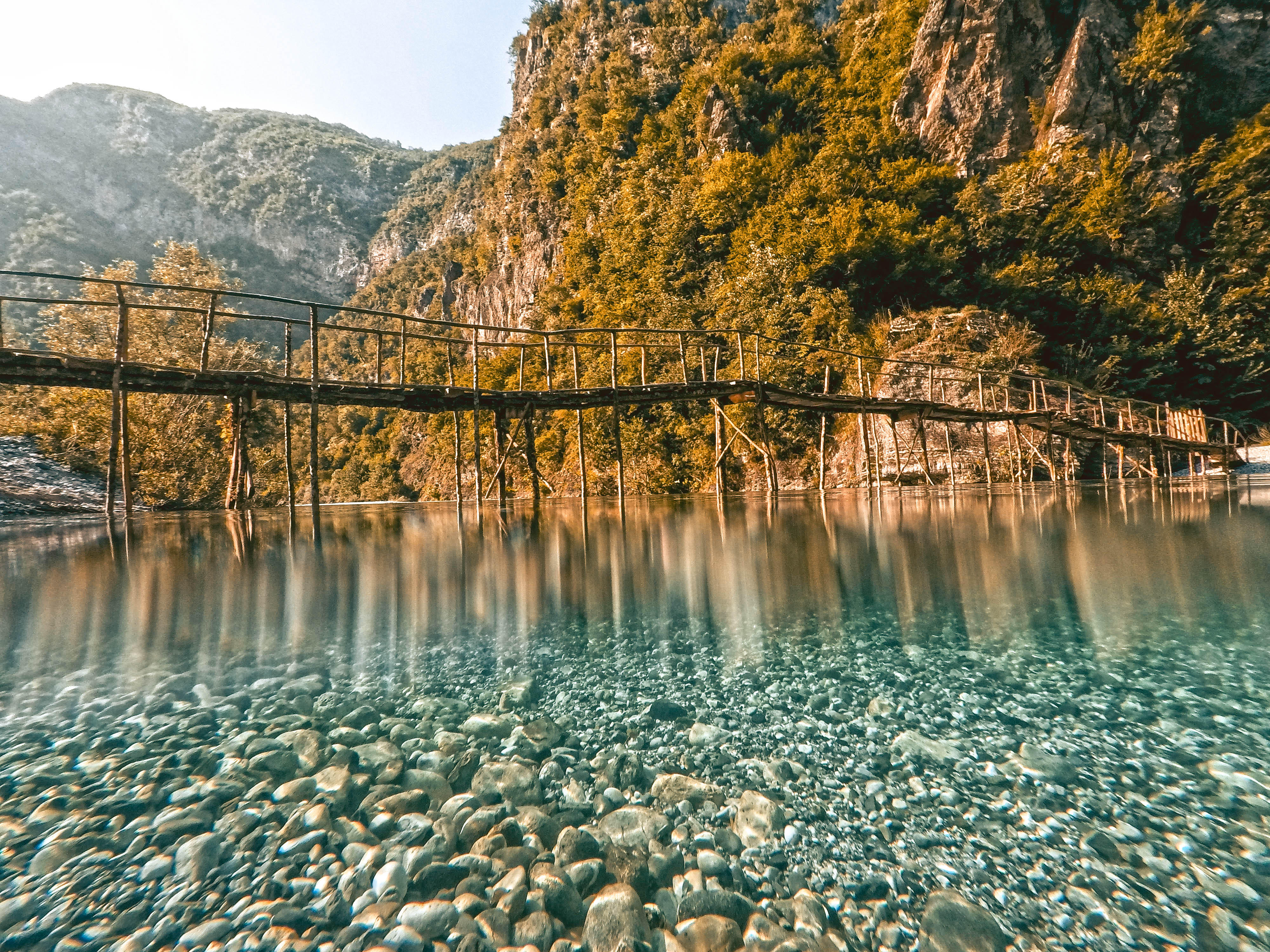 Blini Park, Shala river, Komani lake, Fierza